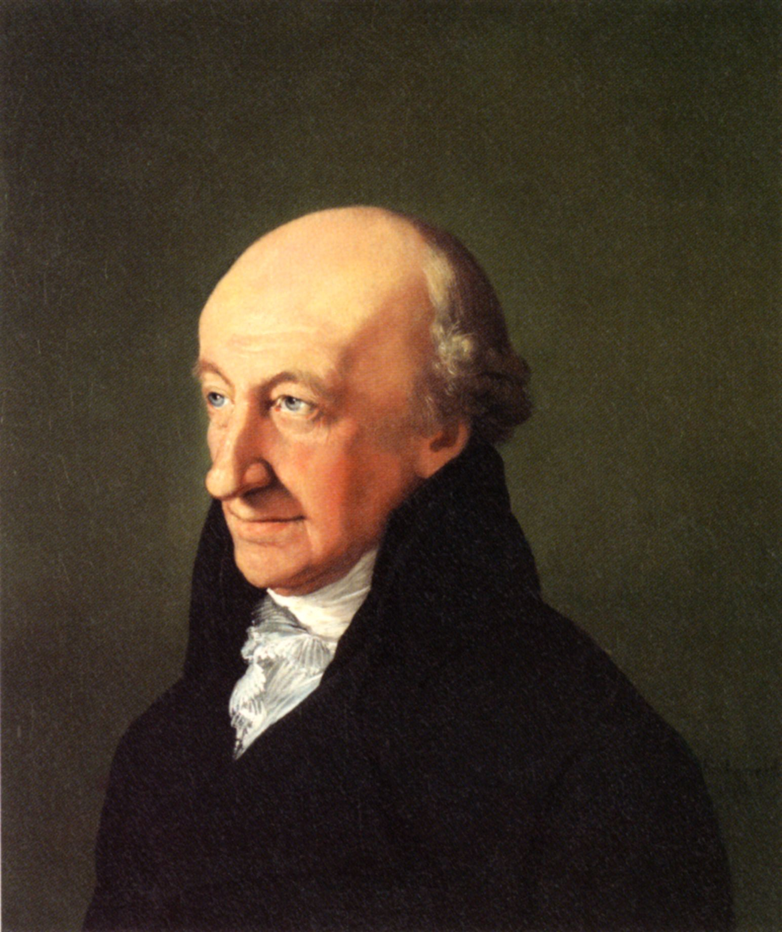 Painting of he German poet Christoph Martin Wieland (1733-1813)